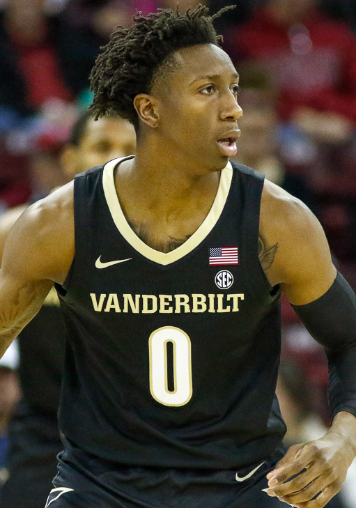 Photo by Chris Gillespie